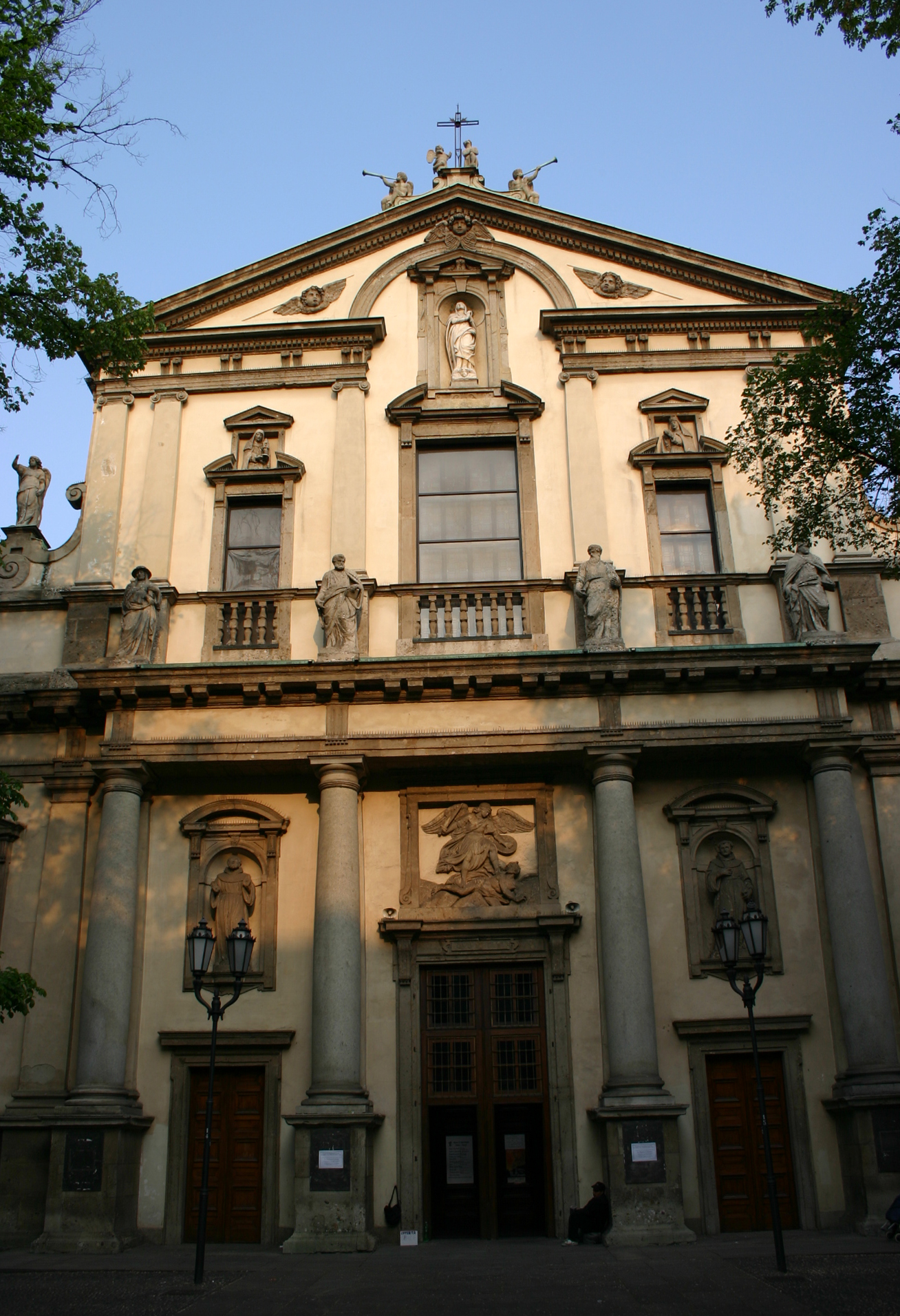 The facade of Sant'Angelo church in Milan, Italy. Picture by Giovanni Dall'Orto, April 11 2007. In 1745. In 2007.